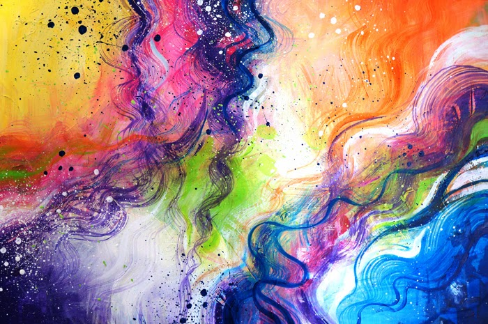 Інтуїтивний живопис